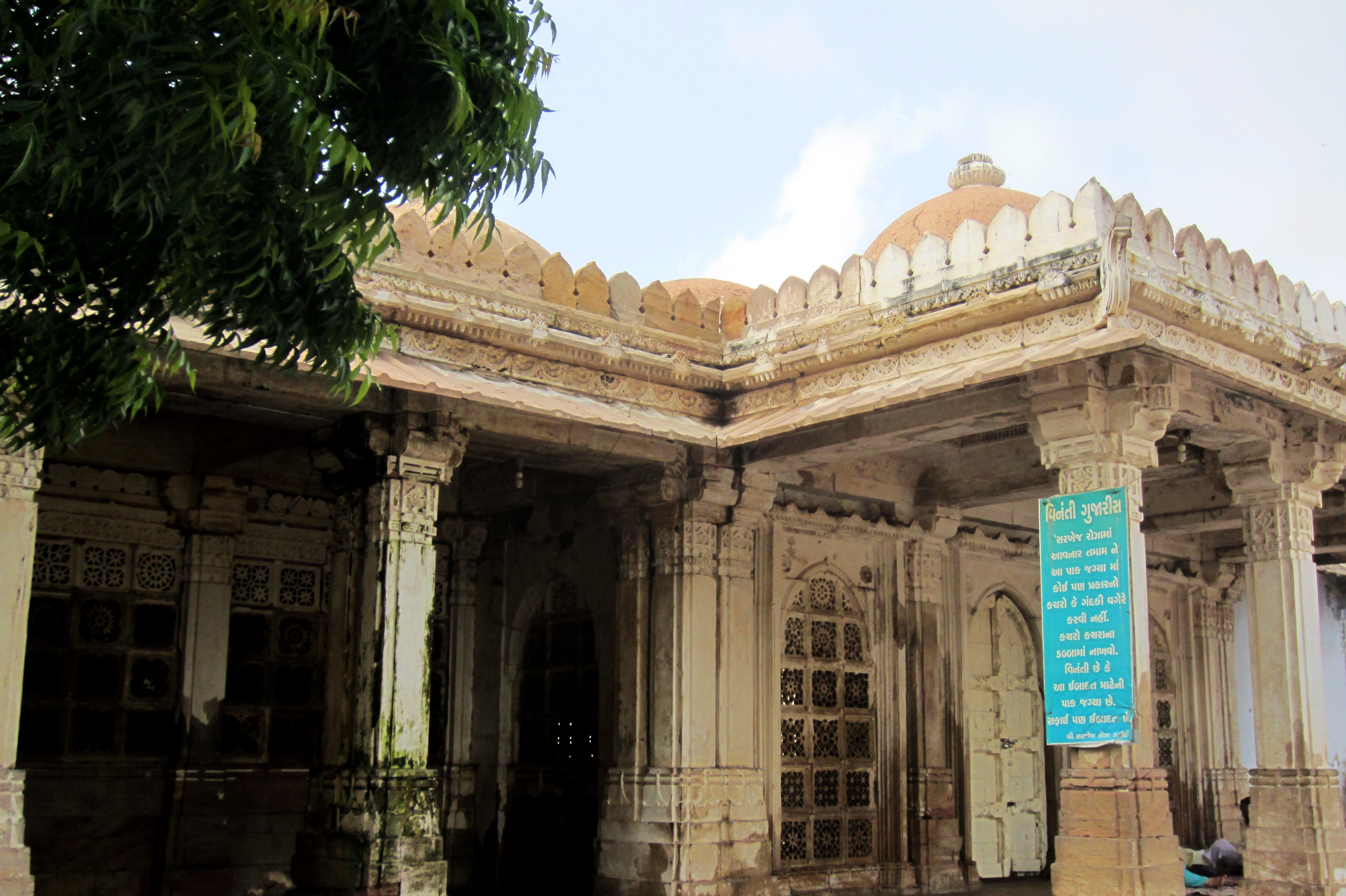 Tomb of Mohammed Begarh in the Sarkhej Roza Complex, Ahmedabad, Gujarat